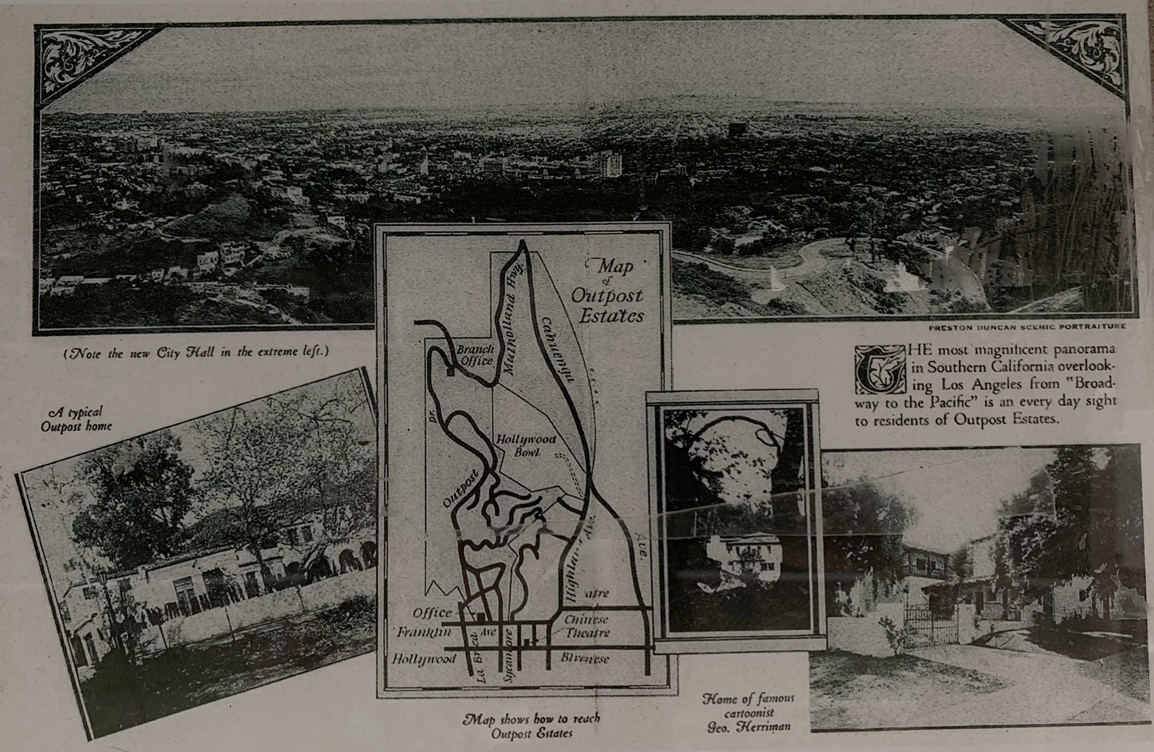 Outpost Estates brochure advertising great views and map of development.